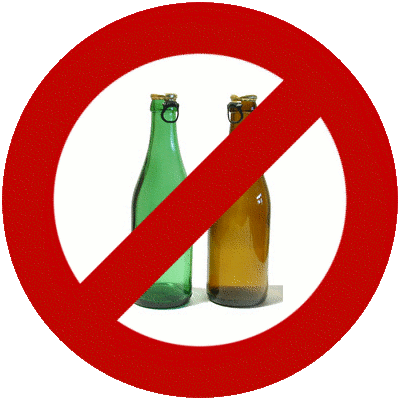 No Alcoholics / Kein Alkohol Logo